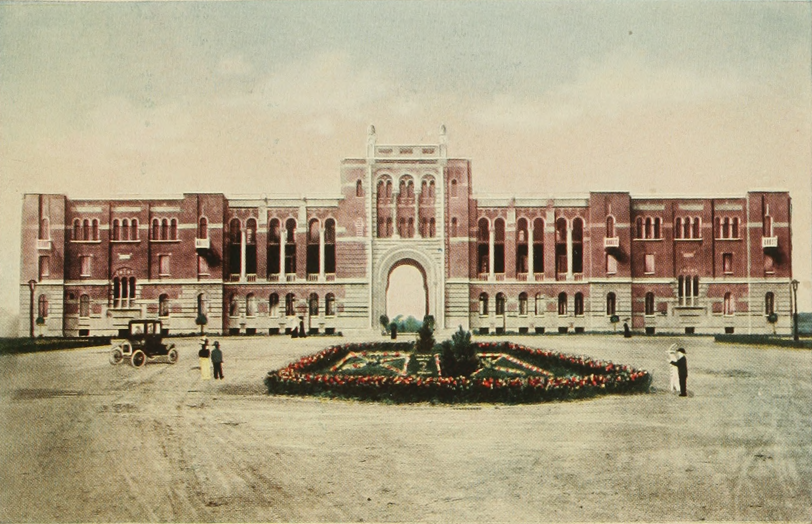 Rice Institute's main building in 1913 - From "Houston: Where Seventeen Railroads Meet the Sea" Page 33/40 "Administration Building, Rice Institute. Endowment, $10,000,000; Seventh Richest College in the United States. Thirty-three Buildings to Be Incorporated in the Academic Plan."